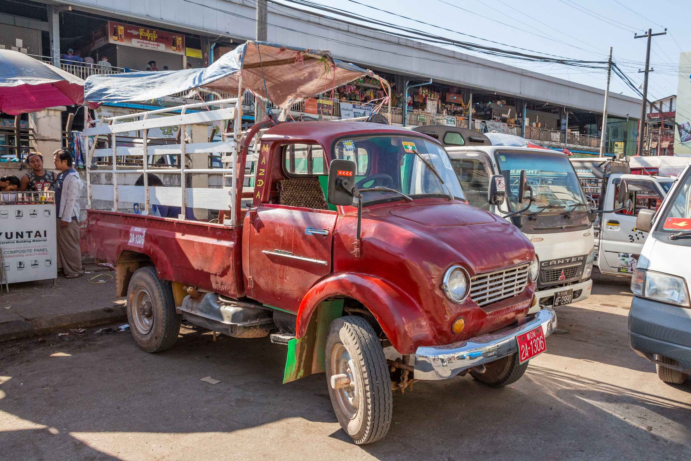 Mazda D1500 in Mawlamyine, Myanmar